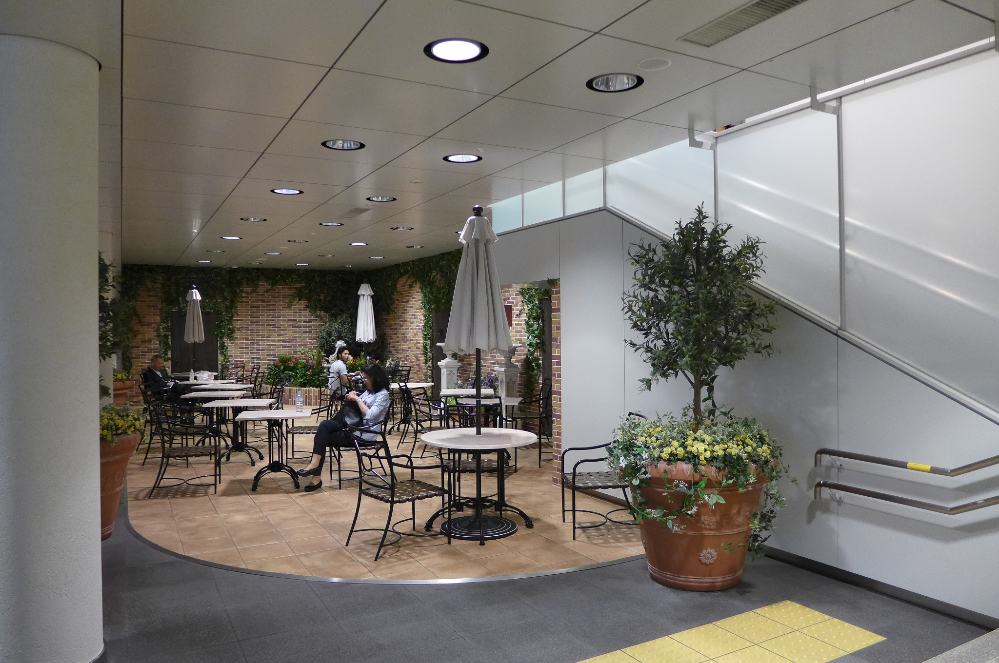 Sapporo Underground Pedestrian Space Station Road